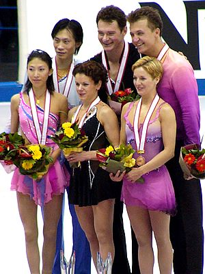 The pairs podium at the 2004 NHK Trophy. From left: Pang Qing / Tong Jian (2nd), Maria Petrova / Alexei Tikhonov (1st), Dorota Zagorska / Mariusz Siudek (3rd)